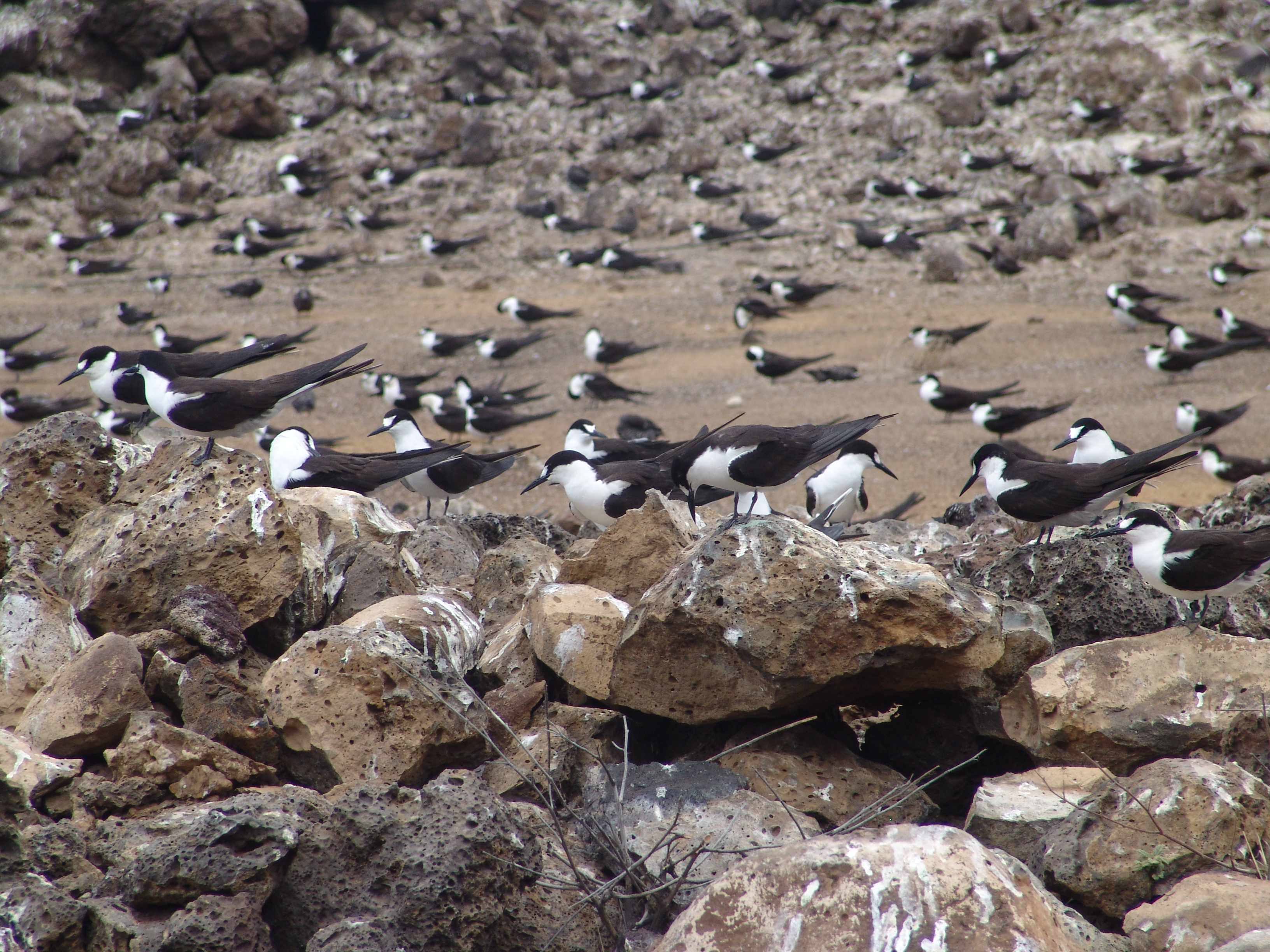 Sooty Tern Onychoprion fuscatus fuscatus, Mars Bay Breeding Grounds, Ascension Island. Approx 130,000 breeding pairs total.